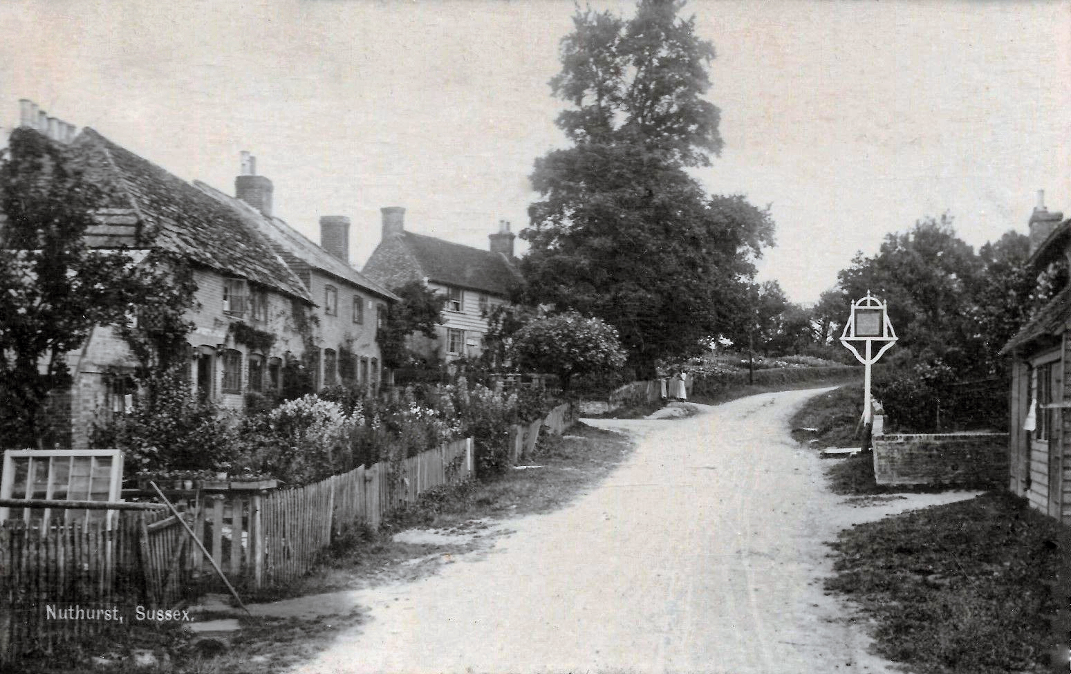 Nuthurst Street (aka Harriots Hill), in Nuthurst, West Sussex, England. This pre First World War postcard photograph looks northward along Nuthurst Street, with the today listed buildings of the Black Horse Inn at the right, and The Dell cottage (with Horsham Stone roof), and The Old Post Office on the left. The second cottage along has since been demolished for a later extension to The Dell. The gap between the buildings is a footpath to Sedgwick Park and House. The postcard photograph is from the first years of the 20th century, with no indication of photographer or publisher. The edges of the card have been trimmed of damage.